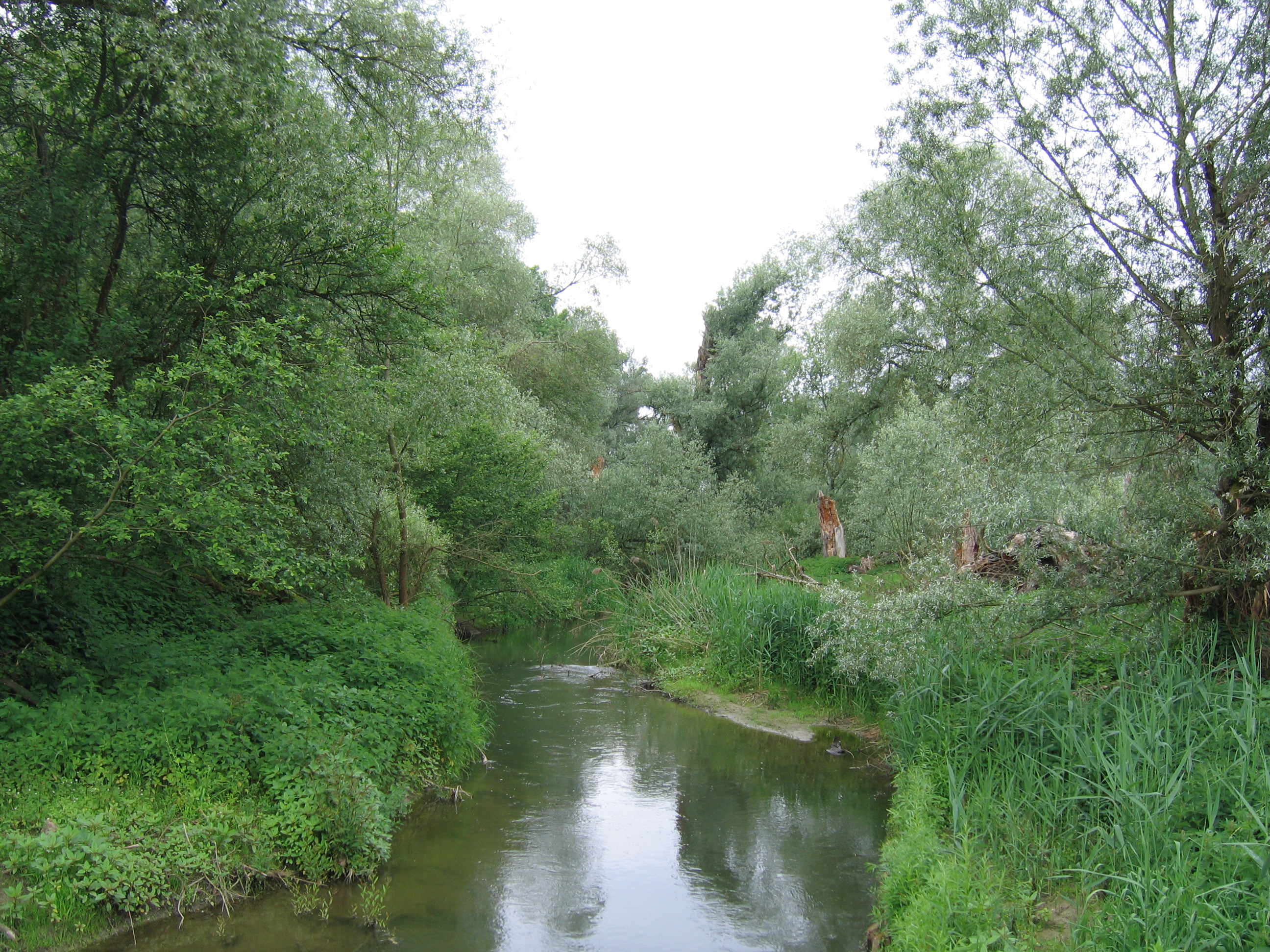 Germany - Baden-Württemberg - Bodenseekreis - Uhldingen-Mühlhofen: nature reserve "Seefelder Aachmündung"